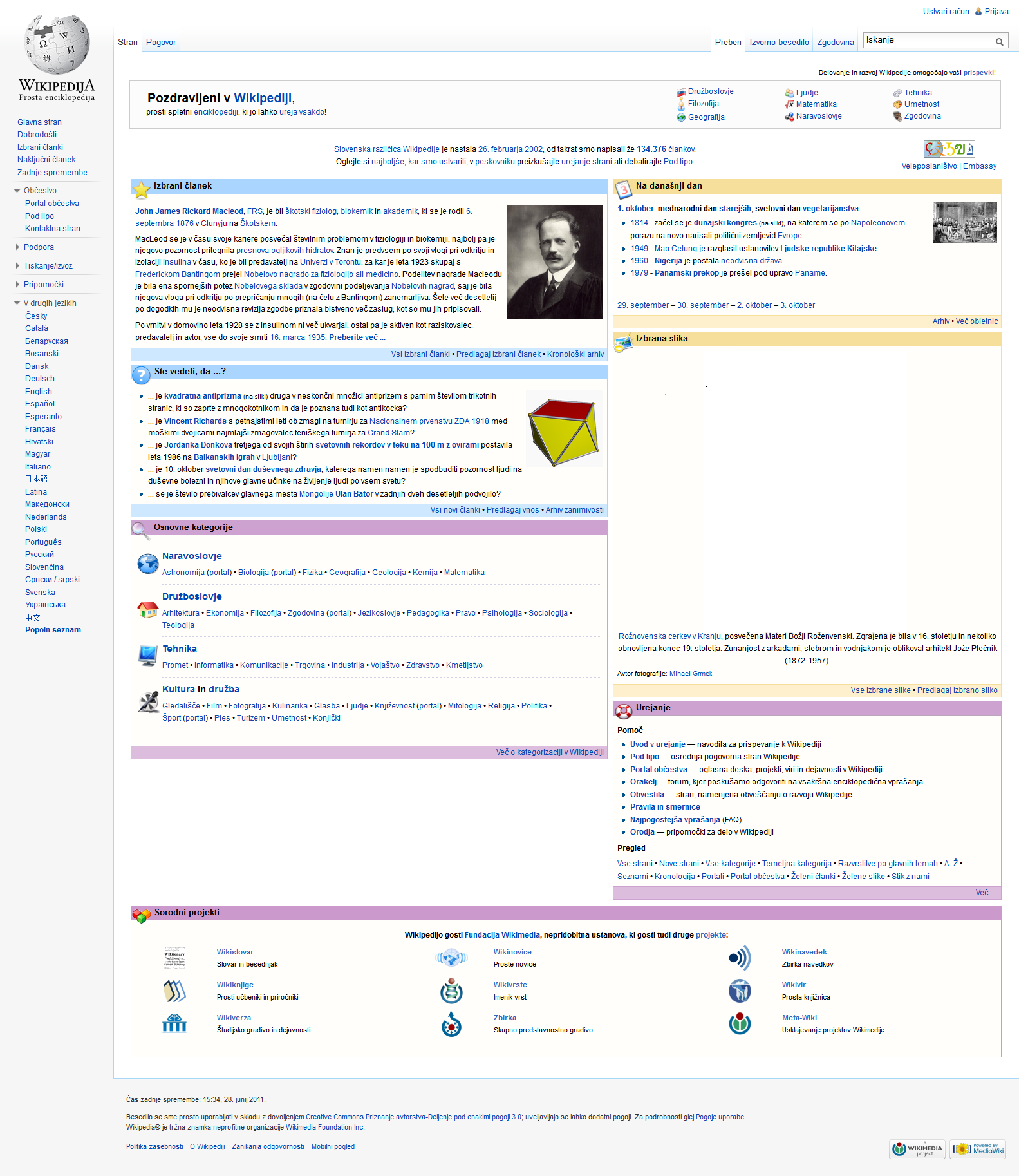 Screenshot of the Slovene Wikipedia's main page, taken on October 1st, 2012 with the FireShot add-on for Firefox